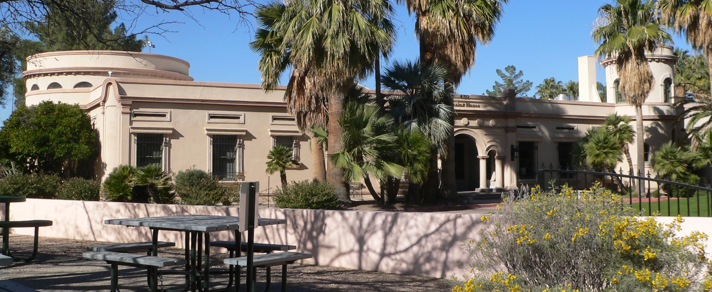 Manning house, located at 9 W. Paseo Redondo in Tucson, Arizona: southern portion, seen from the east.